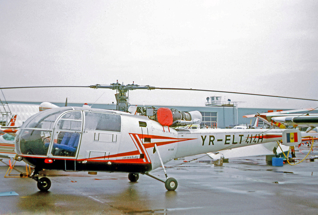 IAR (Sud) 316B YR-ELT at the 1973 Paris Air Show